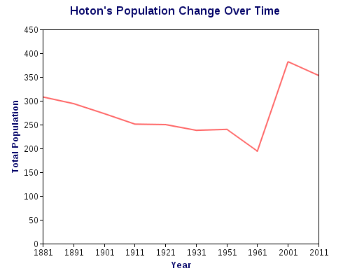 Graph showing the population of Hoton between 1881 - 2011